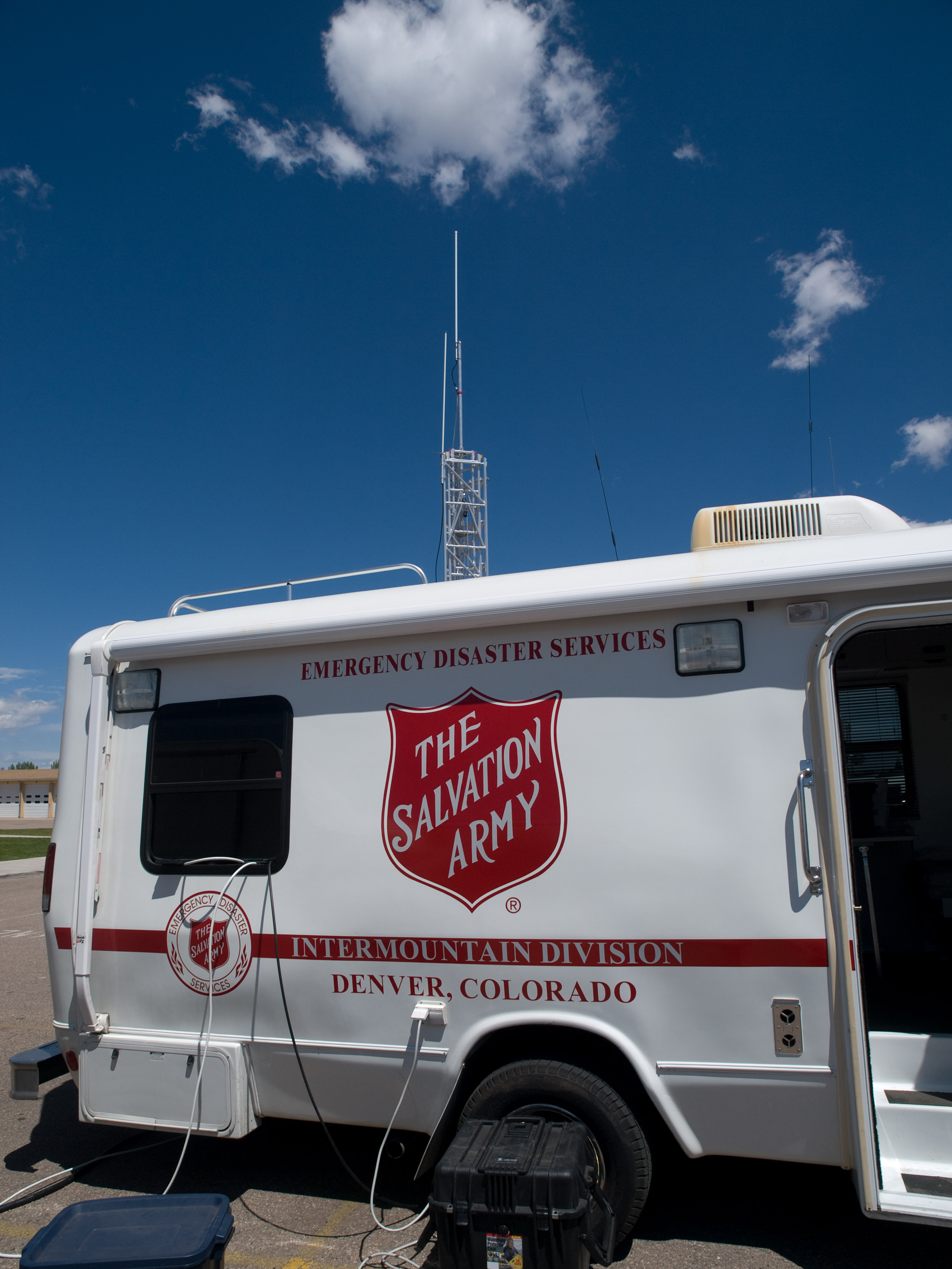 Windsor, Colorado, May 24, 2008 -- The Salvation Army command center in Colorado. Photo: Michael Rieger/FEMA